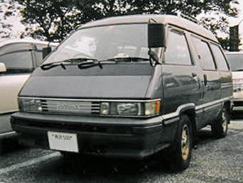 1987 Toyota Townace